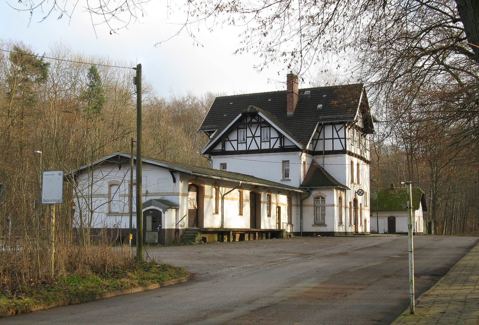 Gadebusch train station, Mecklenburg-Vorpommern, Germany